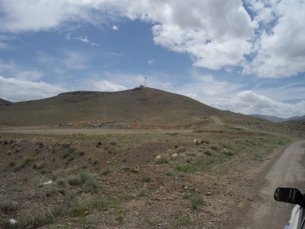 دکل تلویزیونی